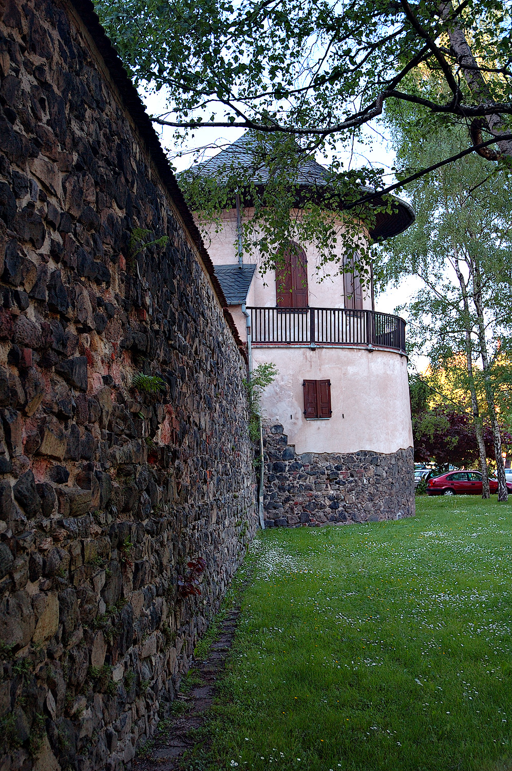 This image shows the remaining city wall with the powder tower in Zwickau (Saxony, Germany).